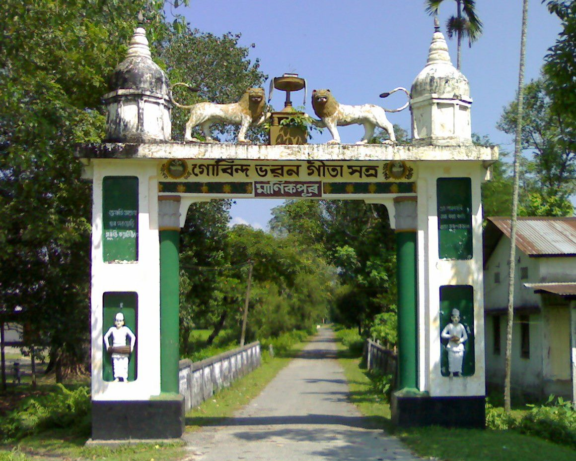 Govinda Bhawan Geeta Satra